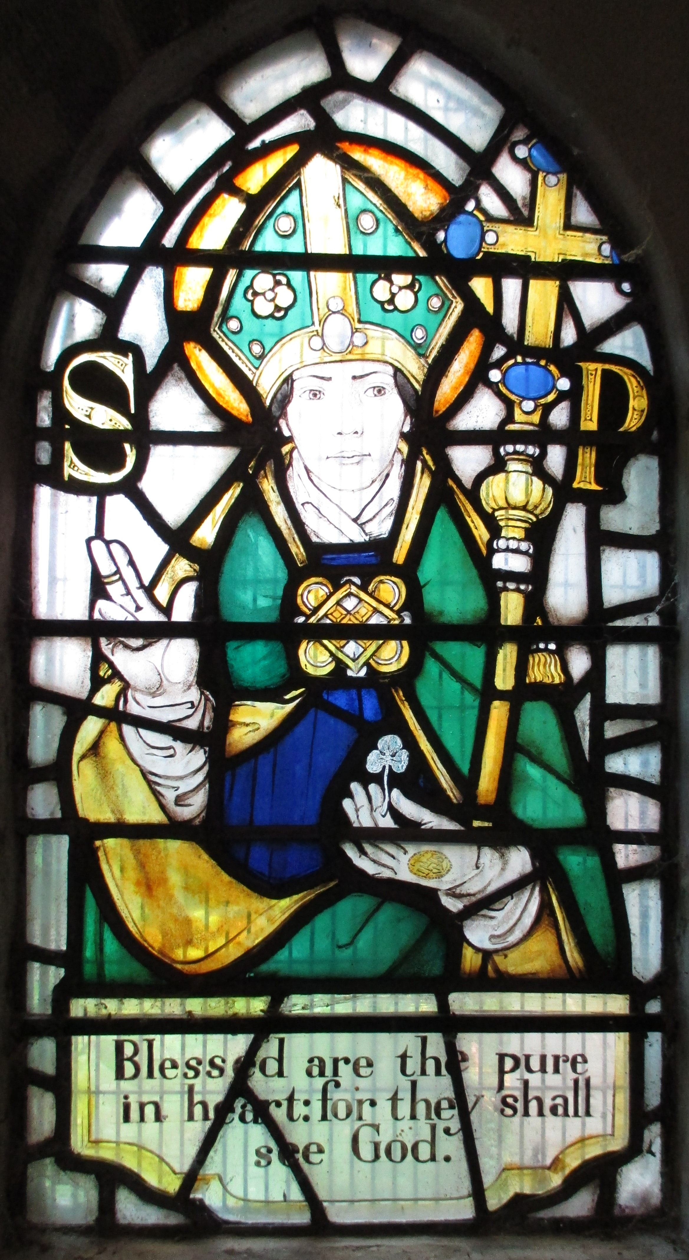 The north window of the narthex of All Saints Church,Hove, East Sussex. It was produced by Martin Travers in 1932, and depicts St Patrick.